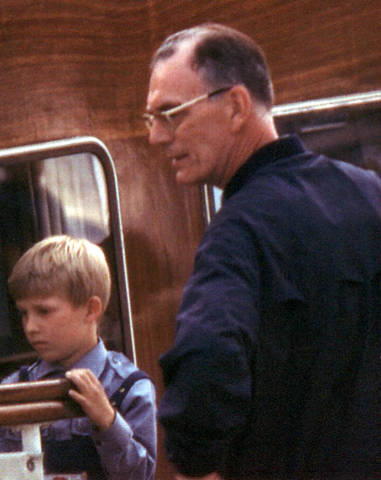 Friedrich Straehl & grandfather Lennart Prince Bernadotte, Count of Wisborg (Prince Lennart of Sweden), as released by Ristesson EntPlace: Gripsholm Castle, Mariefred, Sweden